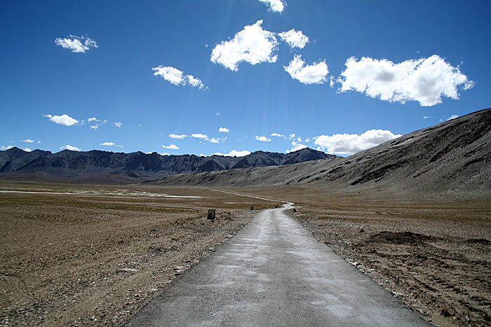 Shot by Sundeep Gajjar in The Great Indian Roadtrip SundeepGajjar 13:44, 8 April 2007 (UTC)